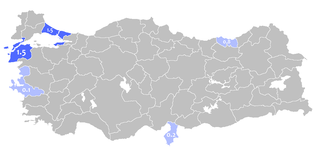 This map shows the distribution of people who spoke Greek in 1965's Turkey.